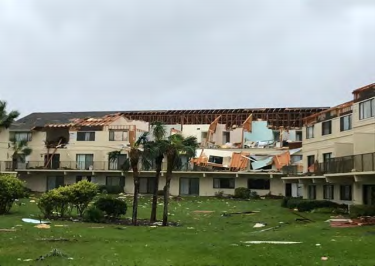 Damage from a tornado spawned by Hurricane Irma in Crescent Beach, Florida